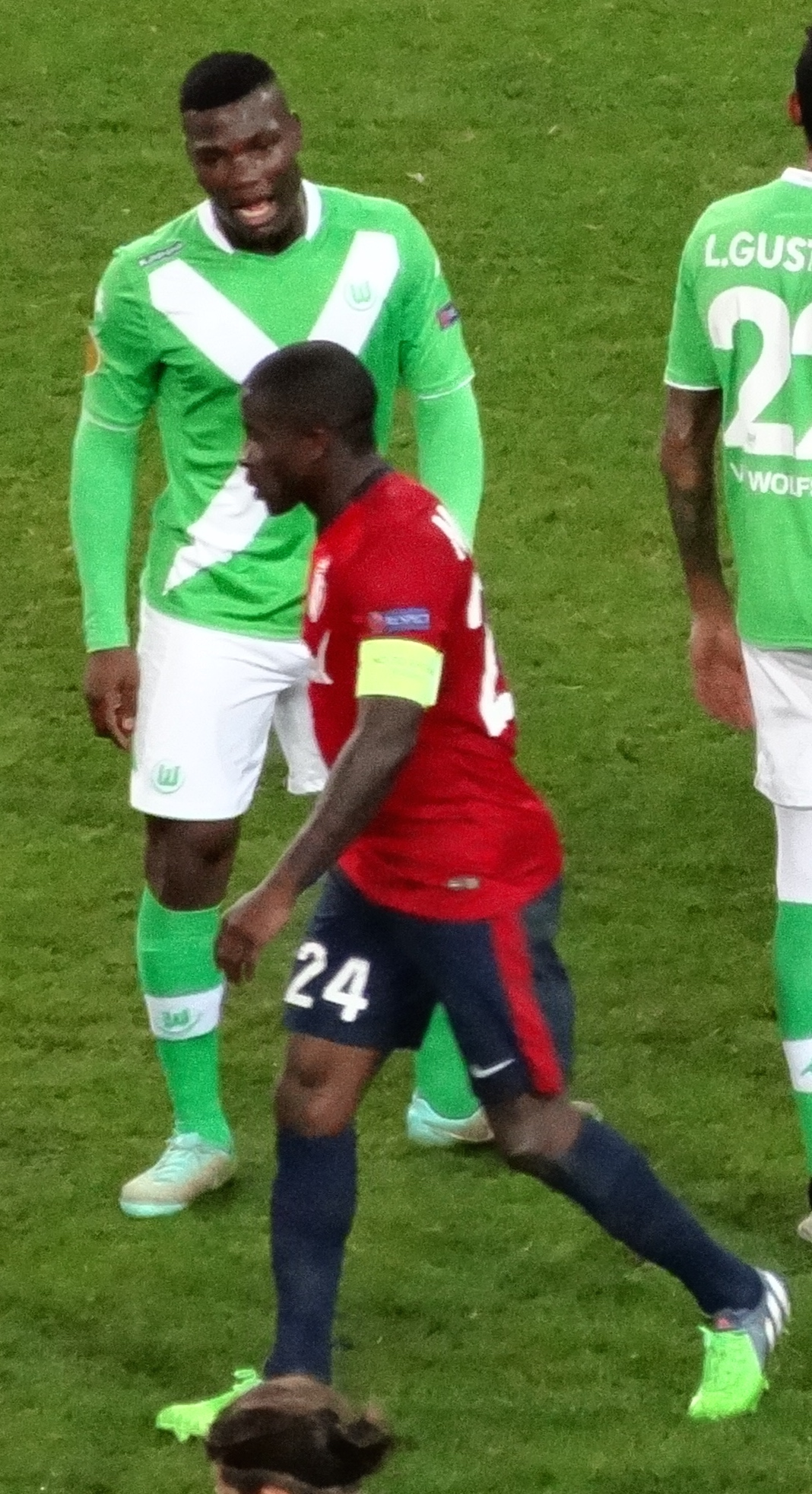 Junior Malanda & Rio Mavuba